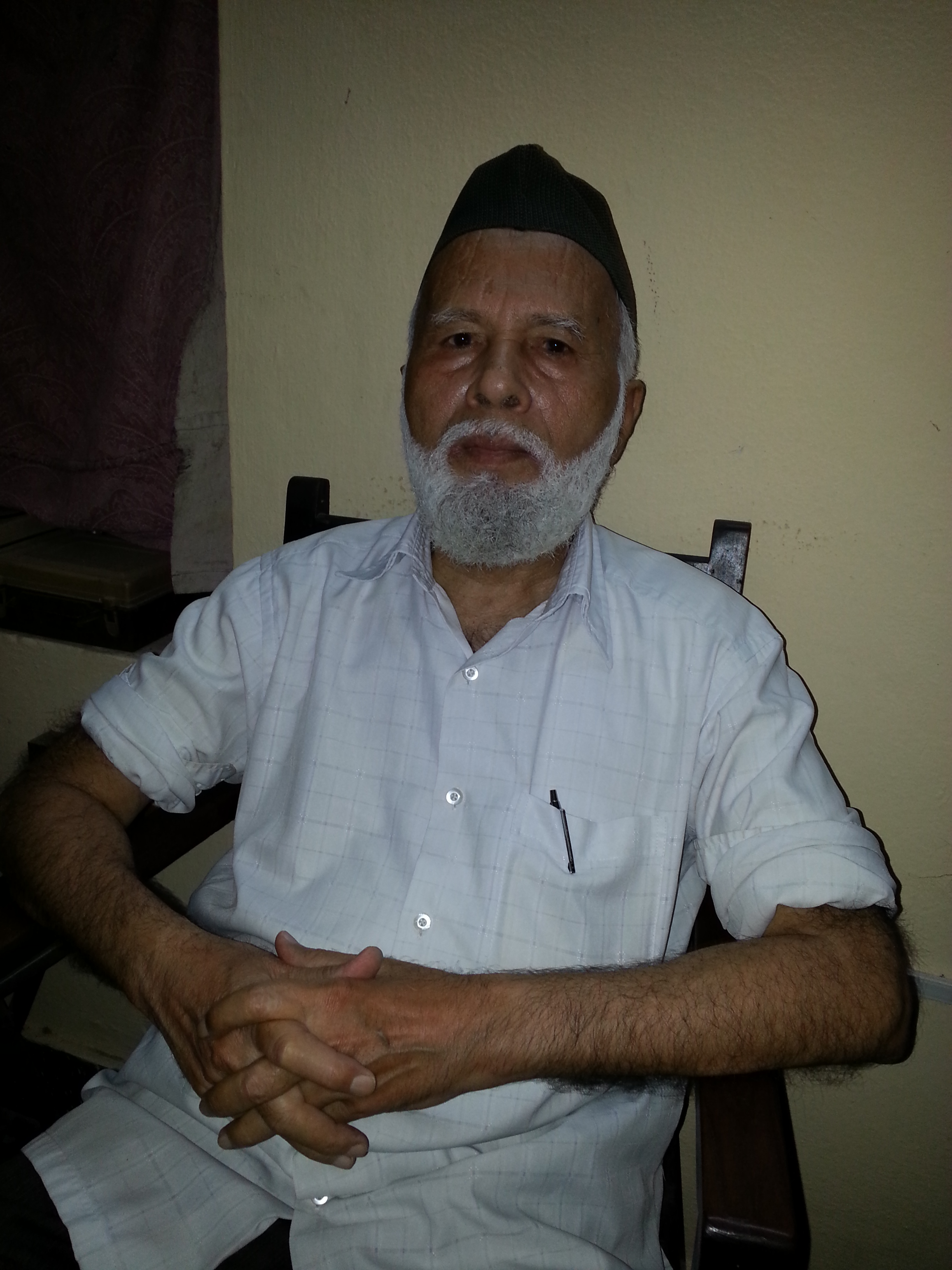 Abul Irfan a prolific writer of Islamic literature in Telugu at his residence in Hyderabad